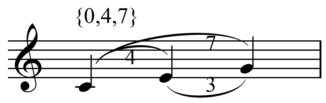 Interval vector of a C major chord {0,4,7}: 001110. Forte # 3-11.